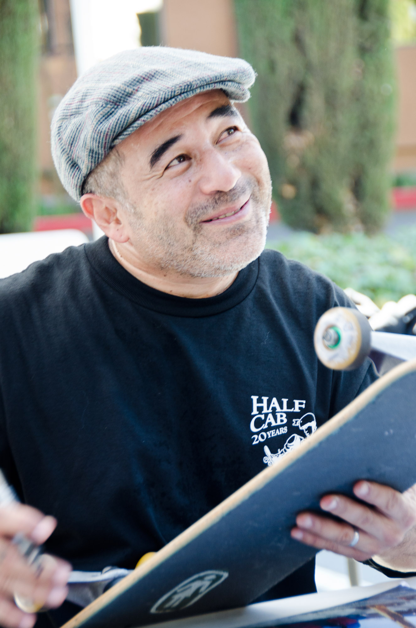 Pro skateboarder Steve Caballero signing a skateboard after a demo at Google's headquarters in Mountain View, California, on Feb 3, 2012.